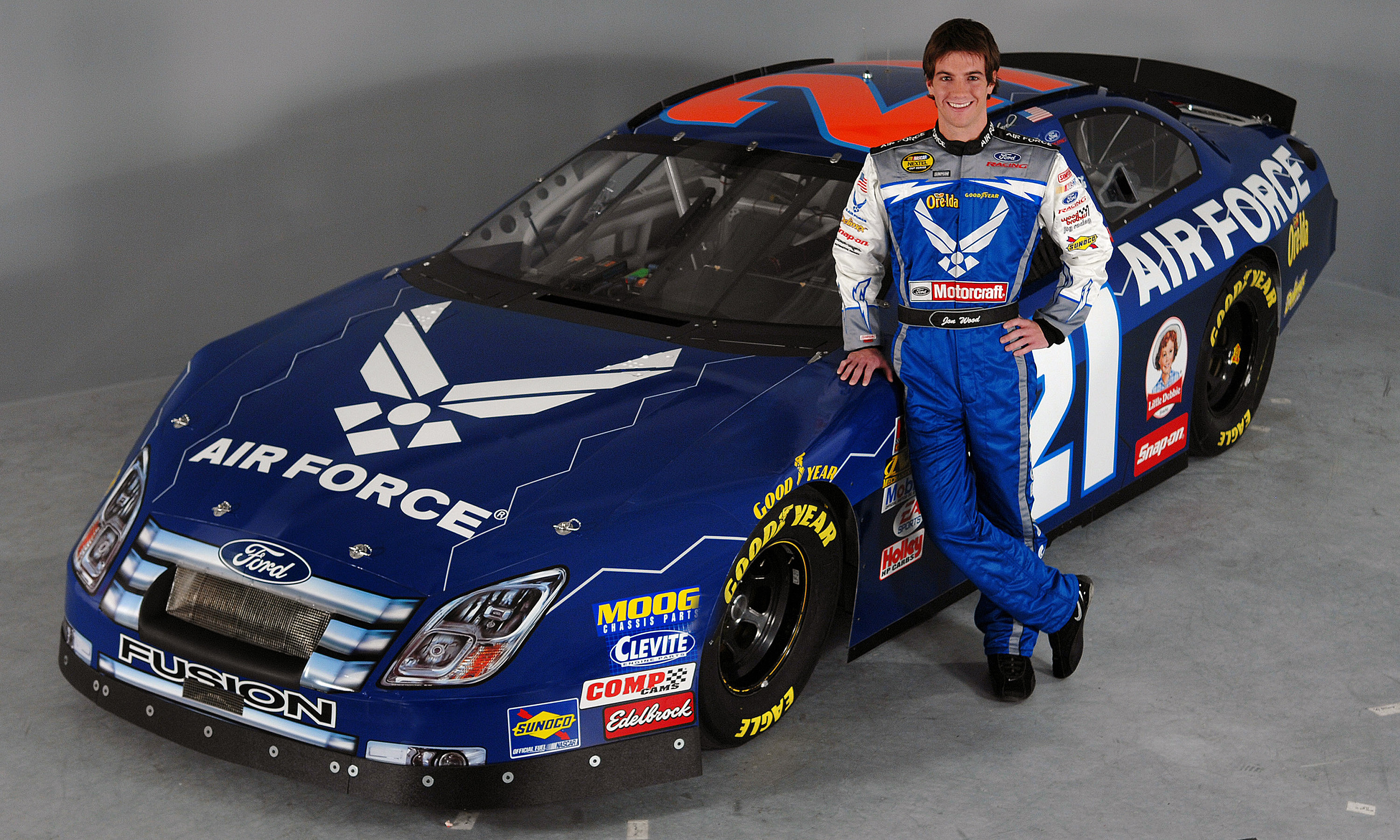 Jon Wood, the driver of No. 21, the Air Force car in the NASCAR Nextel Cup Series, shows off the car's new paint scheme Jan. 25. The Air Force begins its seventh year of sponsorship in the NASCAR races when No. 21 begins the 2007 season Feb. 10 at the Budweiser Shootout at Daytona International Speedway, Fla. (U.S. Air Force photo/Master Sgt. Scott Reed)